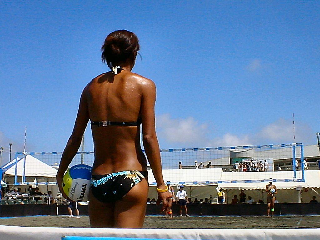 Mermaid Cup of Beach Volley, Kugenuma, Kanagawa, Japan